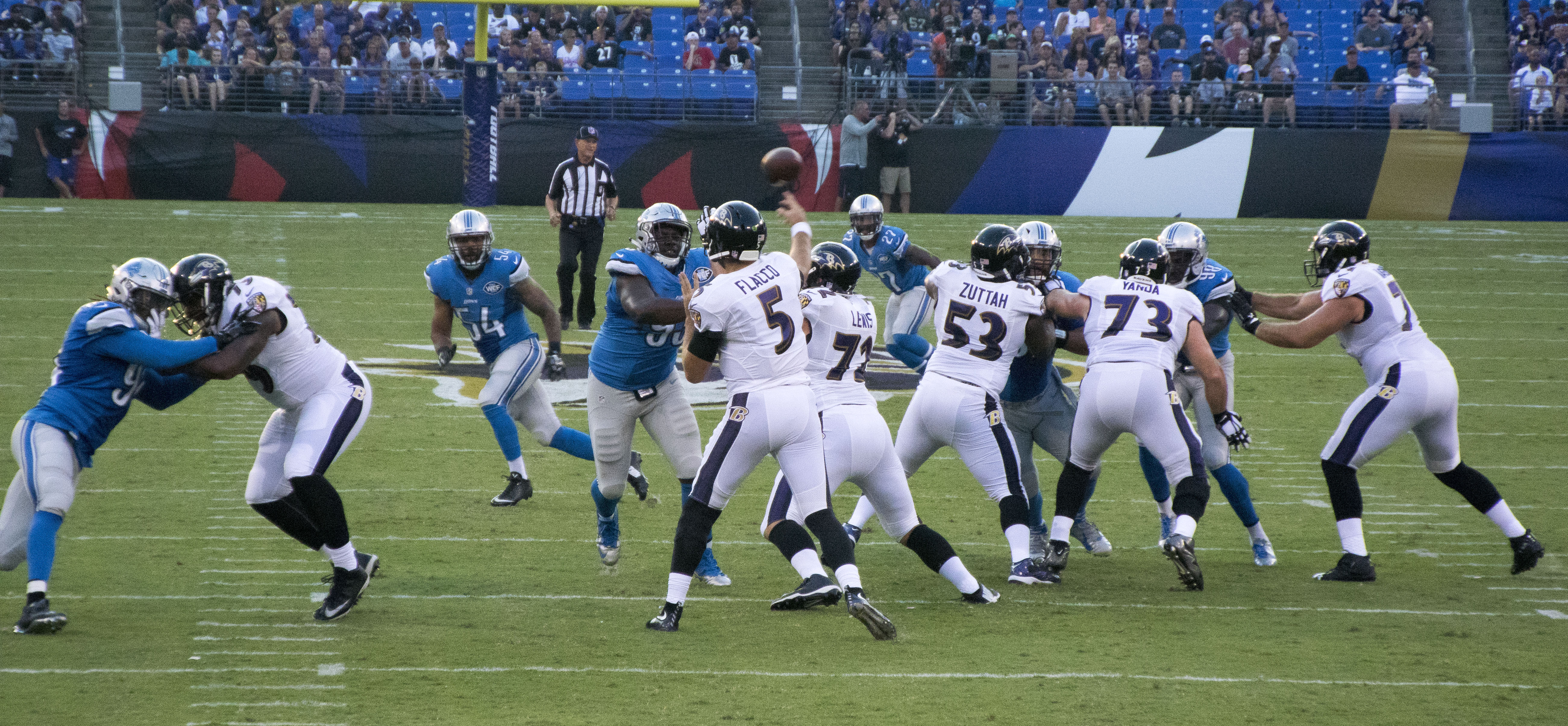 Lions at Ravens 8/27/16